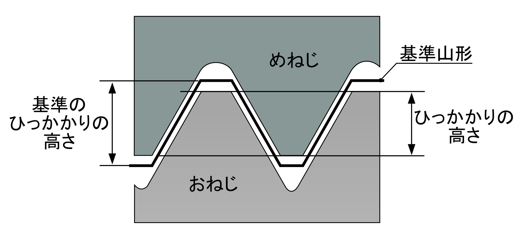 Screw (bolt) 06 J